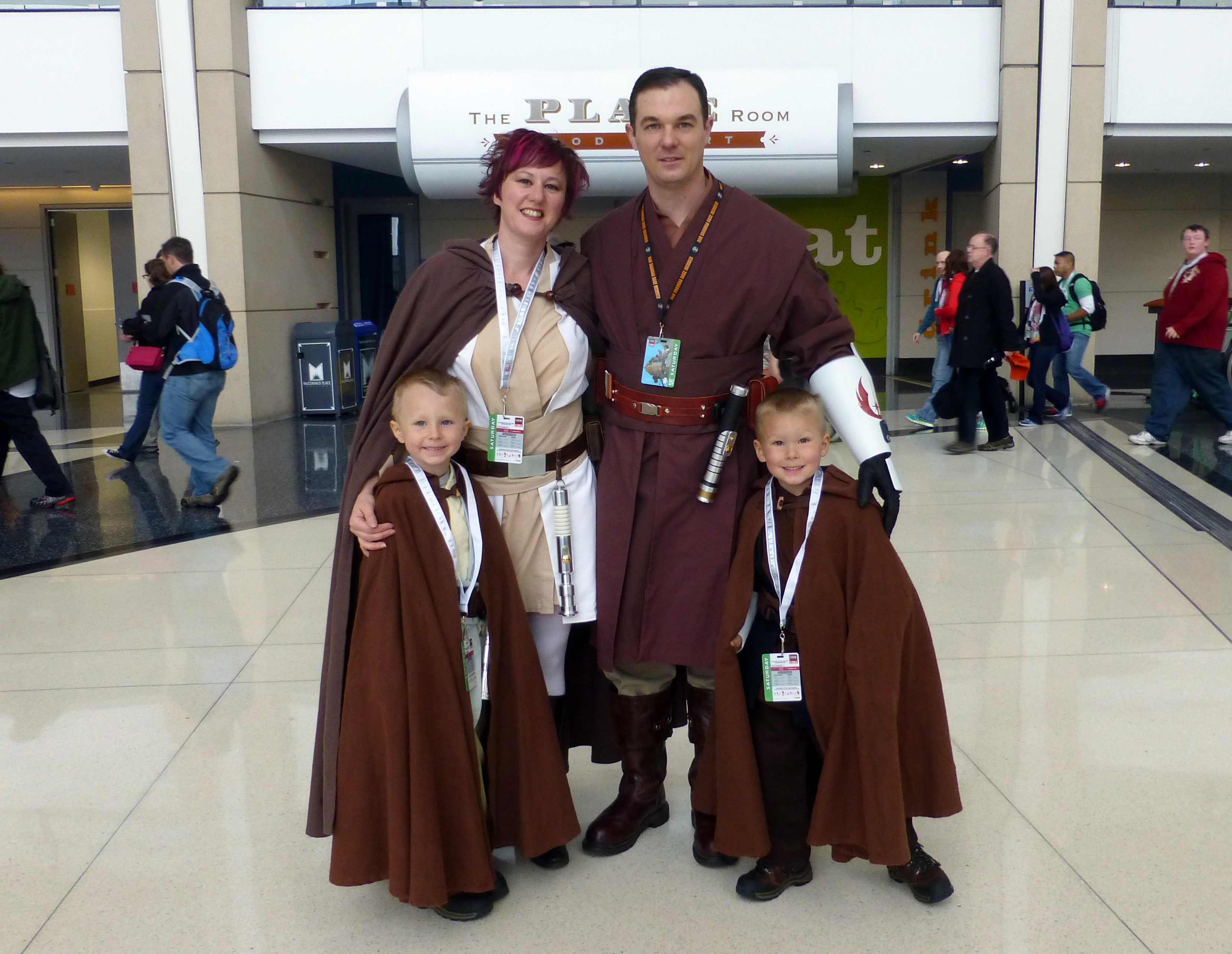 Family playing Jedi Cosplay at Chicago Comic & Entertainment Expo (C2E2) 2015.